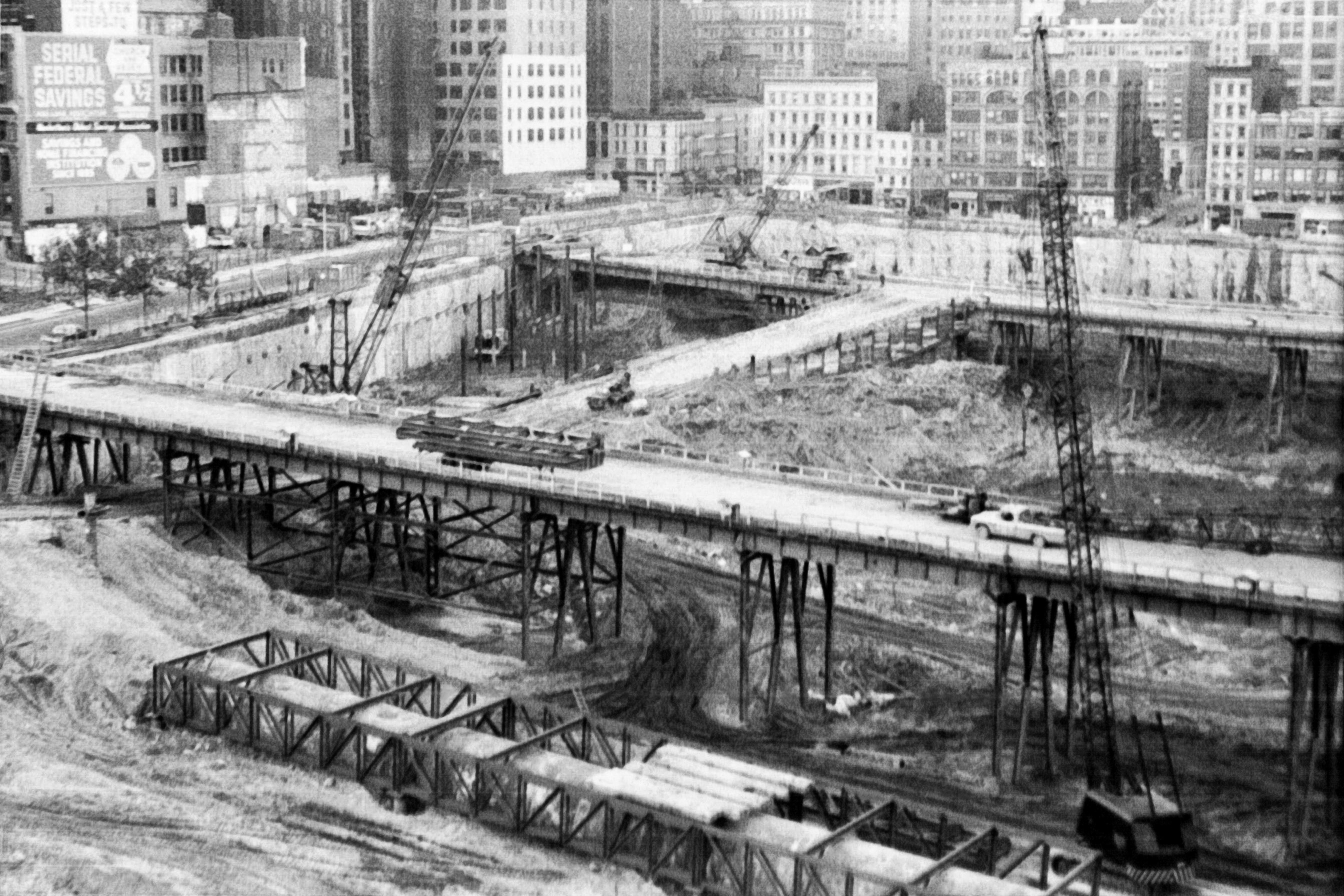 Underground excavation of the WTC construction site